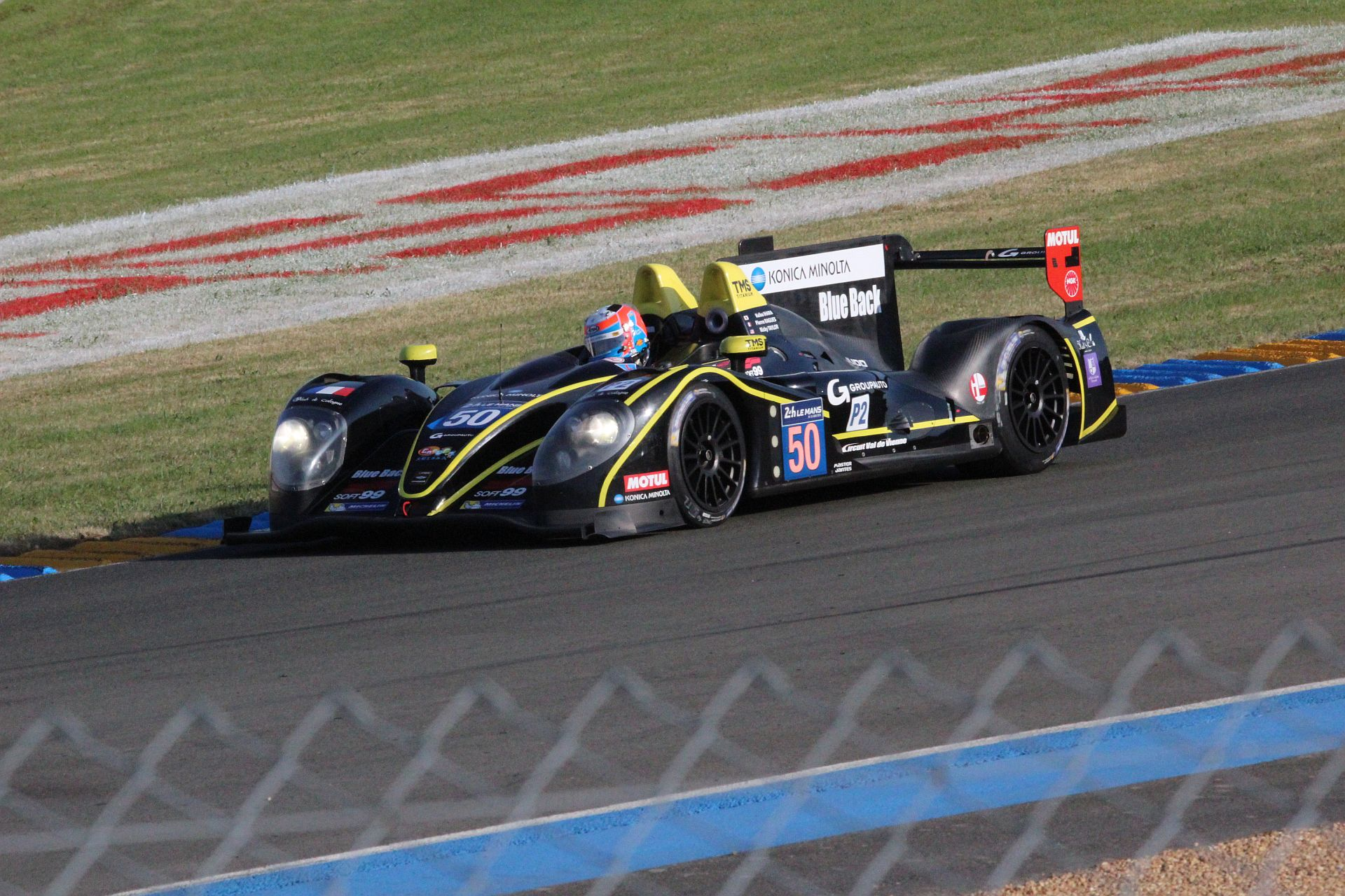 A Morgan of the LMP2-Categorie with a Judd HK 3.6L V8 at Le Mans in 2014